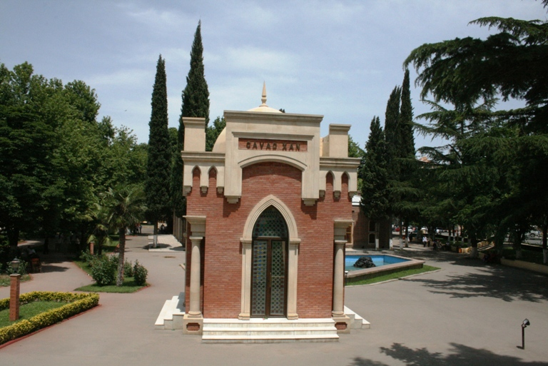 A mausoleum of the last khan of the Ganja Khanate - Javad Khan in ganja/Azerbaijan